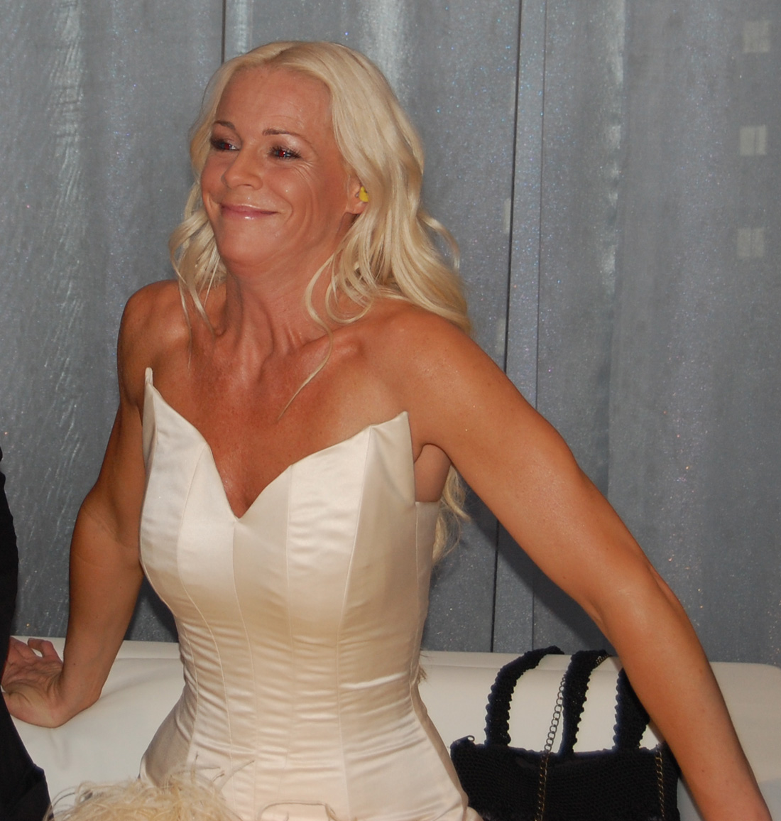 Malena Ernman at the ESC 2009